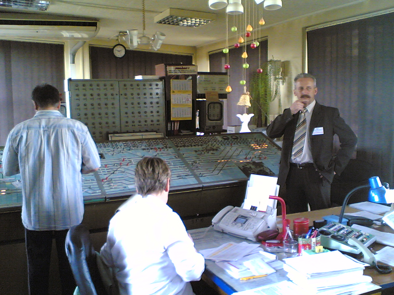 Signal tower